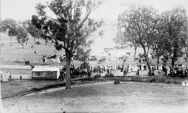 A Day at the Races' - a collection from the State Government of NSW This file was posted to Flickr by the State Library of New South Wales (NSW). See also their website. This tag does not indicate the copyright status of the attached work. A normal copyright tag is still required. See Commons:Licensing for more information. This image is of Australian origin and is now in the public domain because its term of copyright has expired. According to the Australian Copyright Council (ACC), ACC Information Sheet G023v17 (Duration of copyright) (August 2014).3 Type of materialCopyright has expired if … A Photographs or other works published anonymously, under a pseudonym or the creator is unknown:taken or published prior to 1 January 1955BPhotographs (except A):taken prior to 1 January 1955CArtistic works (except A & B):the creator died before 1 January 1955DPublished editions1 (except A & B):first published more than 25 years agoECommonwealth, State or Territory owned2 photographs and engravings:taken or published more than 50 years ago 1 means the typographical arrangement and layout of a published work. eg. newsprint. 2 owned means where a government is the copyright owner as well as would have owned copyright but reached some other agreement with the creator. 3 Copyright Amendment (Disability Access and Other Measures) Bill 2017 (Australian Government) When using this template, please provide information of where the image was first published and who created it.